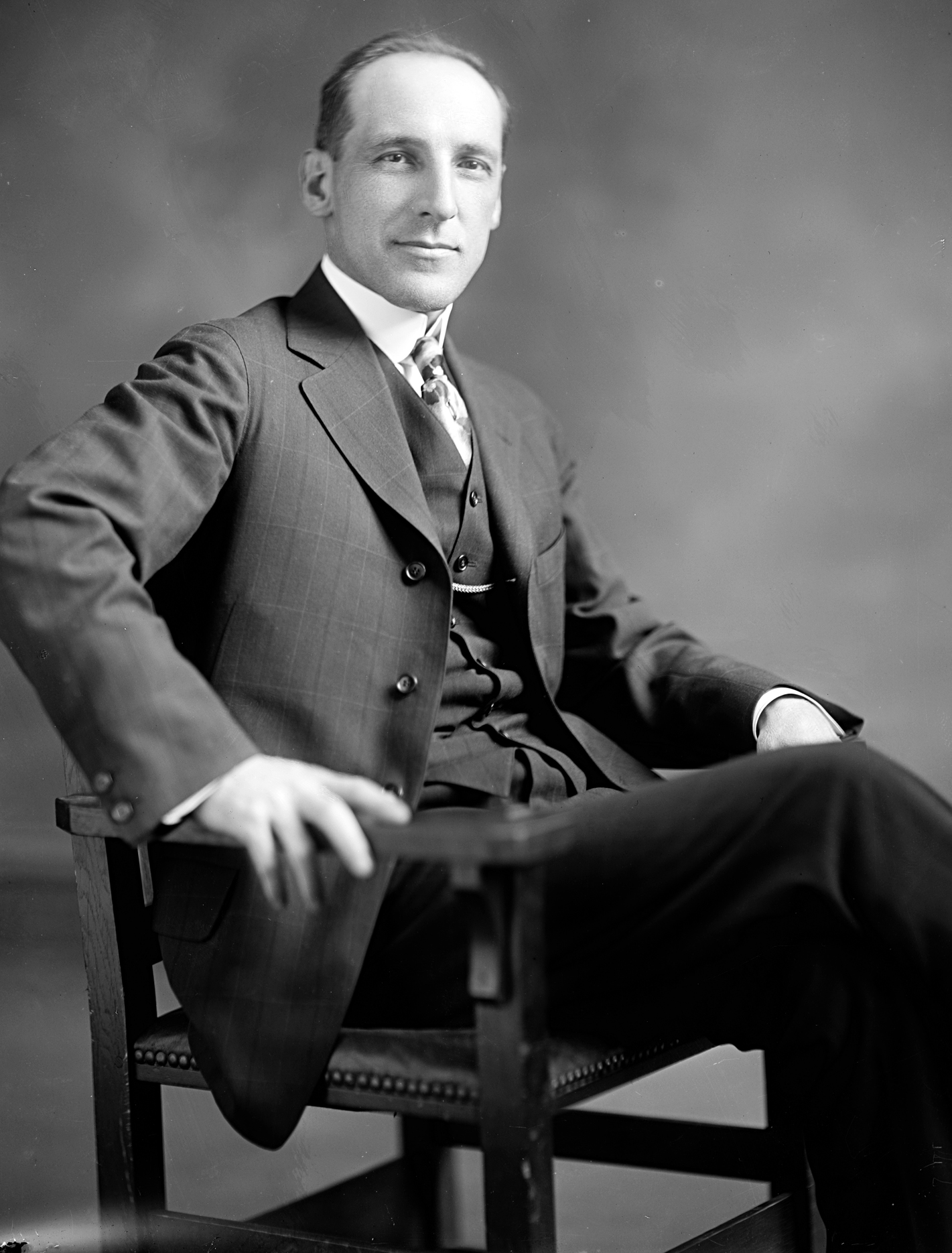 Frank D. Scott, US Representative from Michigan